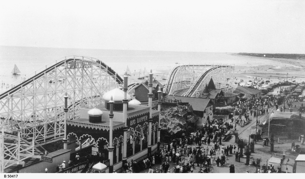 Luna Park Glenelg, as seen from the Ferris Wheel